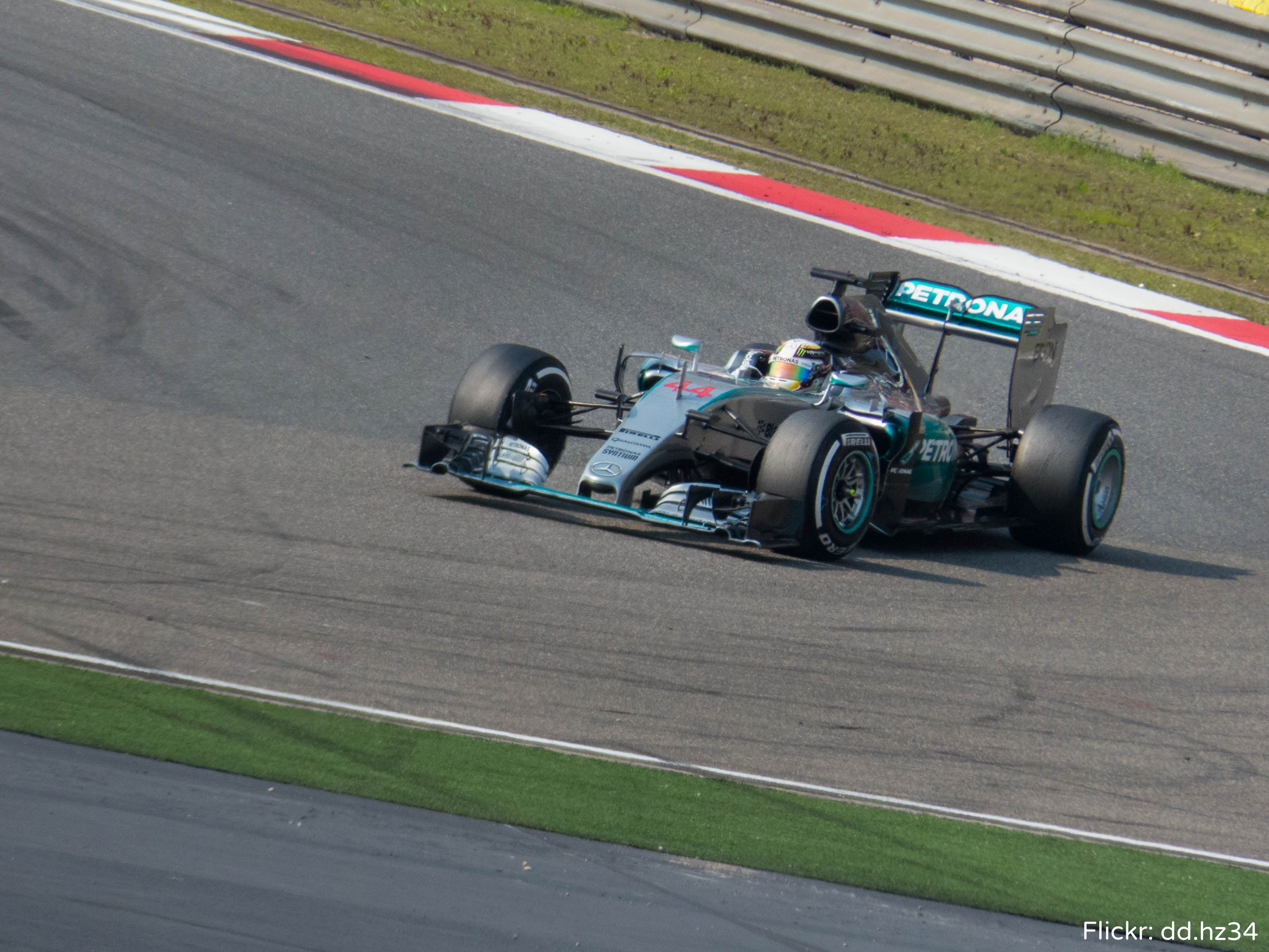 Lewis Hamilton at the 2015 Chinese Grand Prix